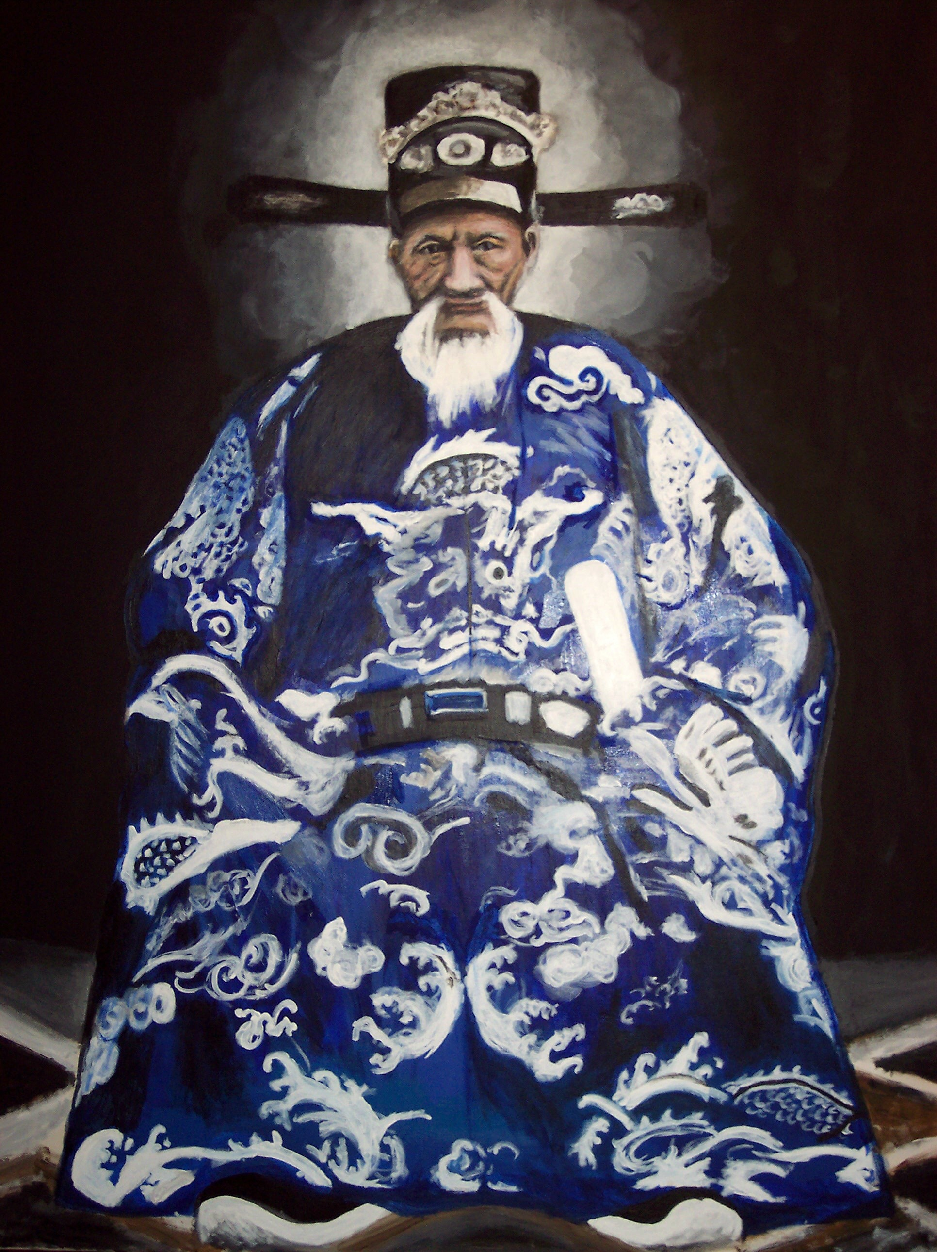 This a painting I did based on the photograph of Phan Thanh Gian.